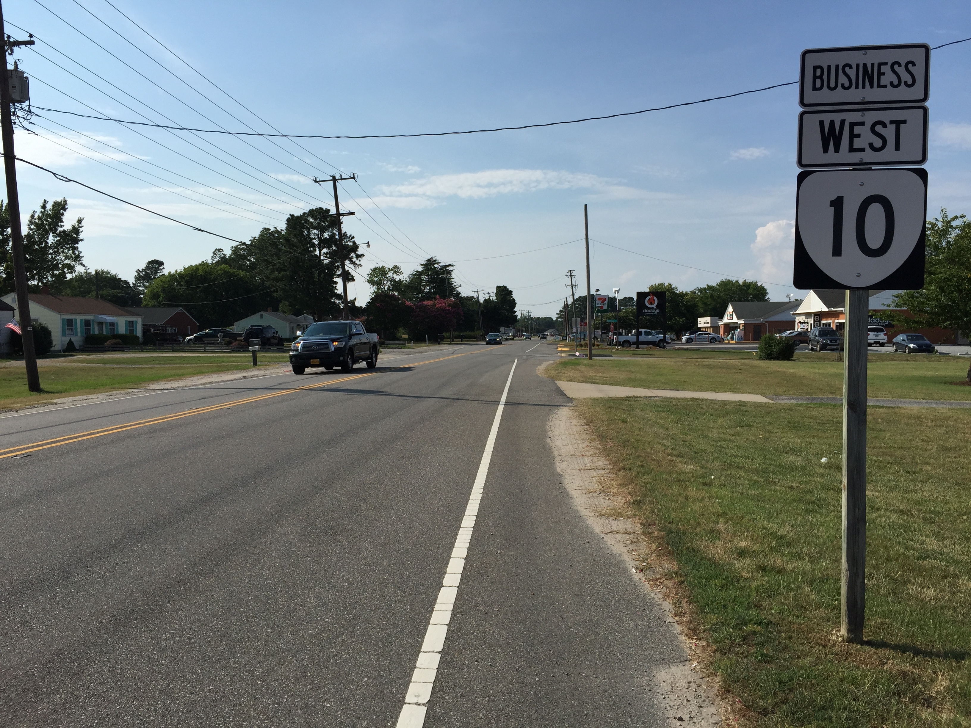 View south along U.S. Route 258 Business and west along Virginia State Route 10 Business (Church Street) at Grimes Street in Smithfield, Isle of Wight County, Virginia